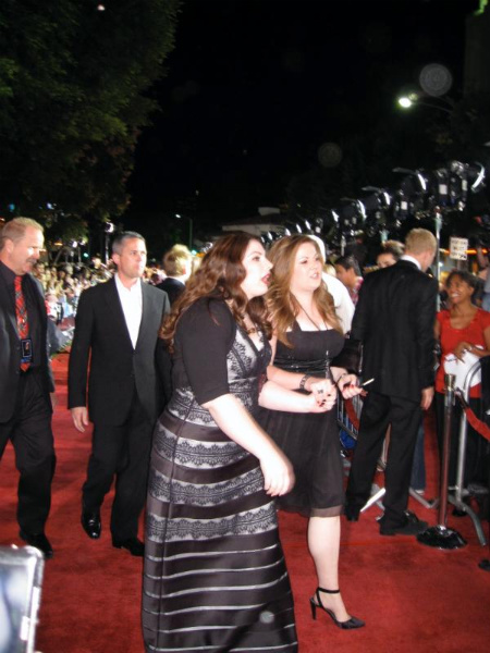 American author Stephenie Meyer at the Twilight premiere. November 2008.